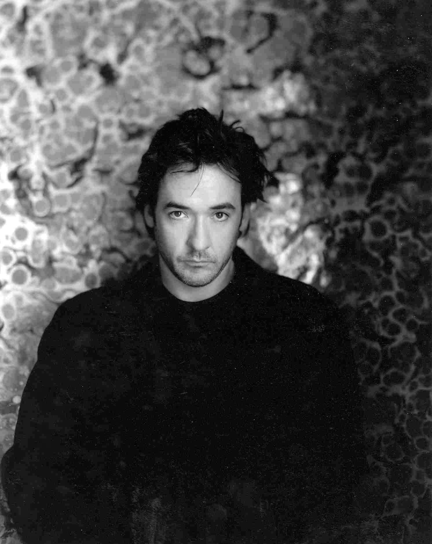 John Paul Cusack (born June 28, 1966) is an American film actor and screenwriter.